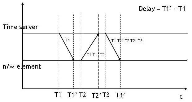 IEEE1588 communication mechanism